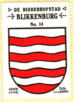 Coat of arms of Blikkenburg (Netherlands)